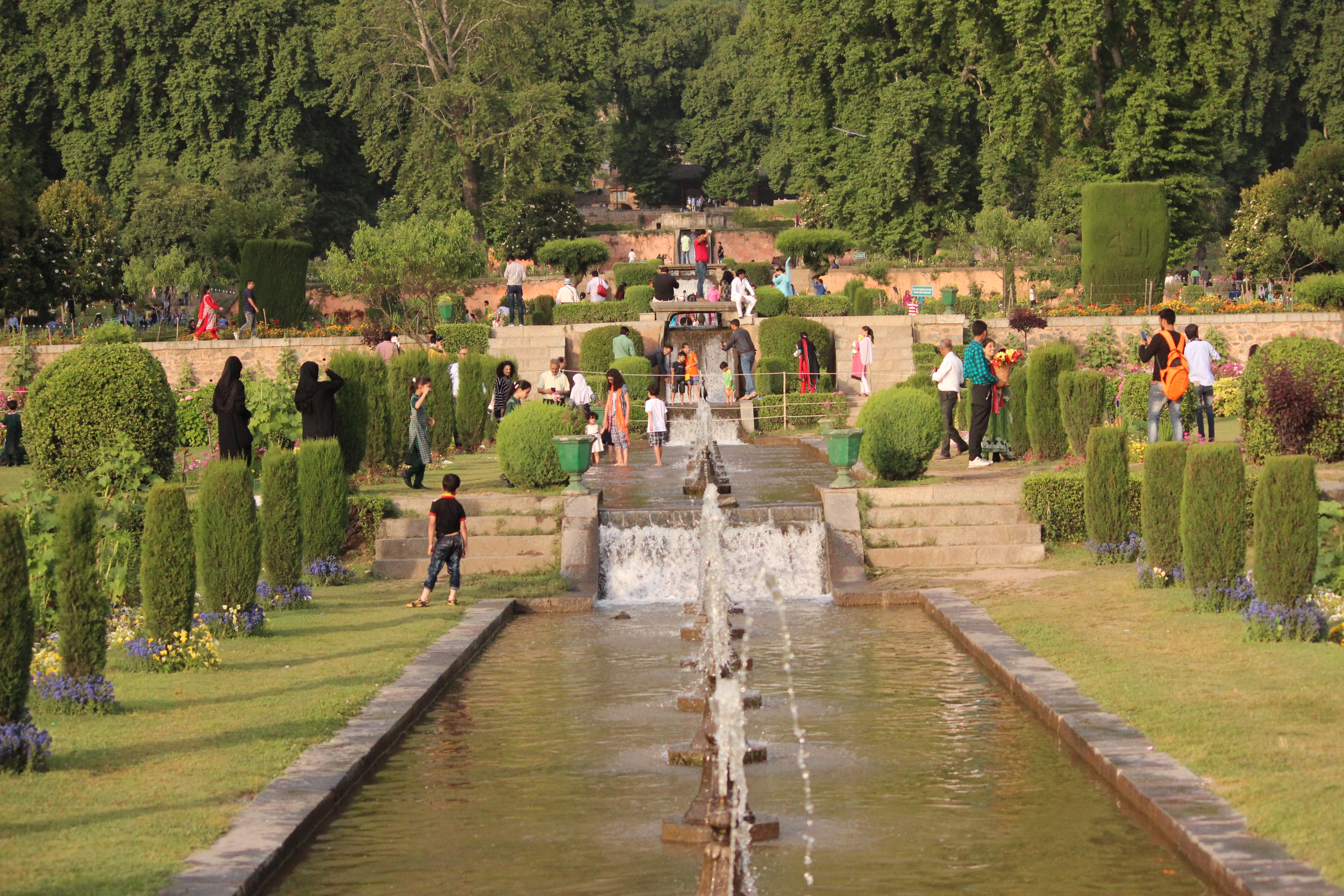 Its Shalimar garden in Kashmir